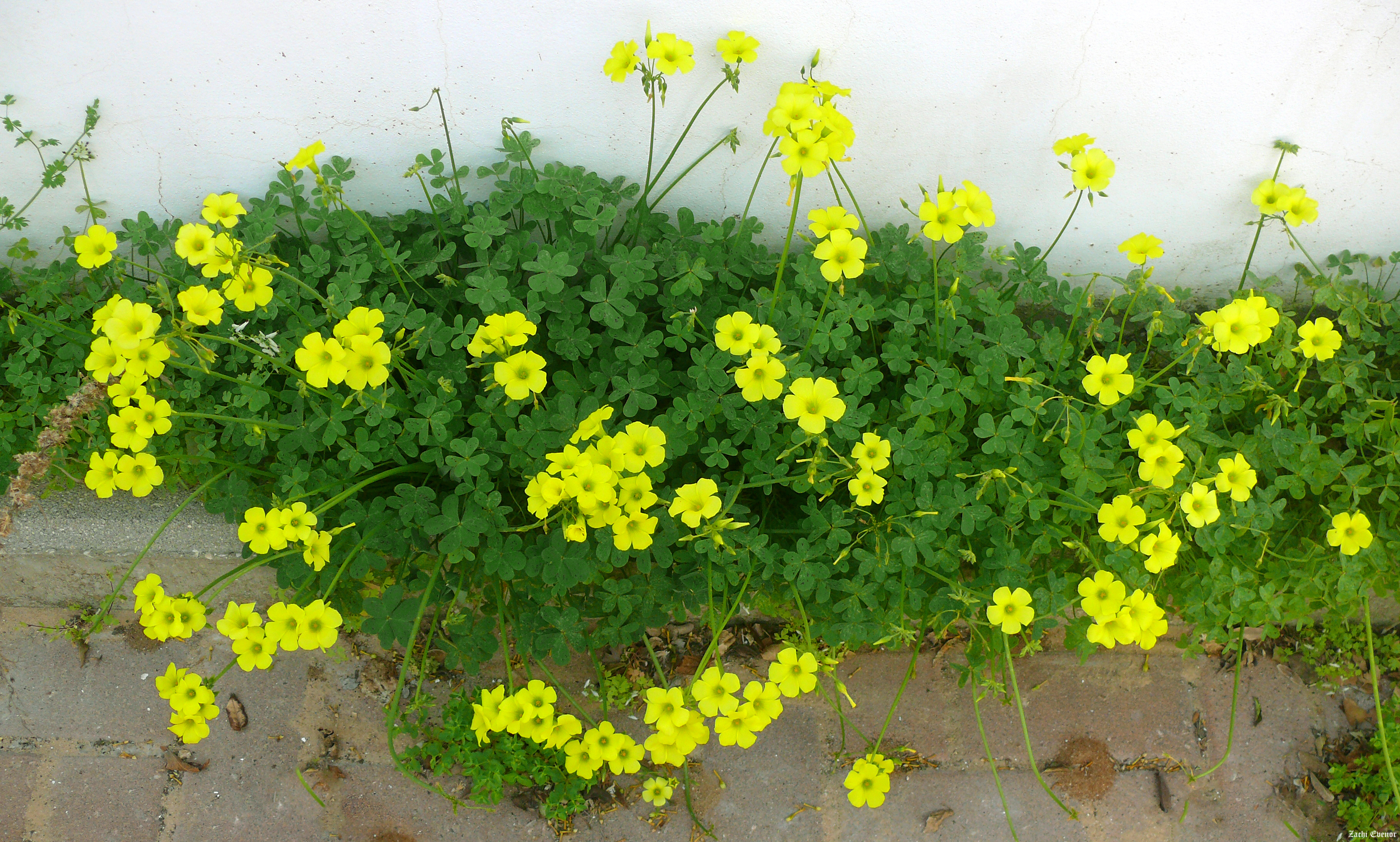 Oxalis pes-caprae, Rishon LeZion, Israel